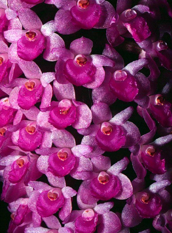 Arpophyllum giganteum